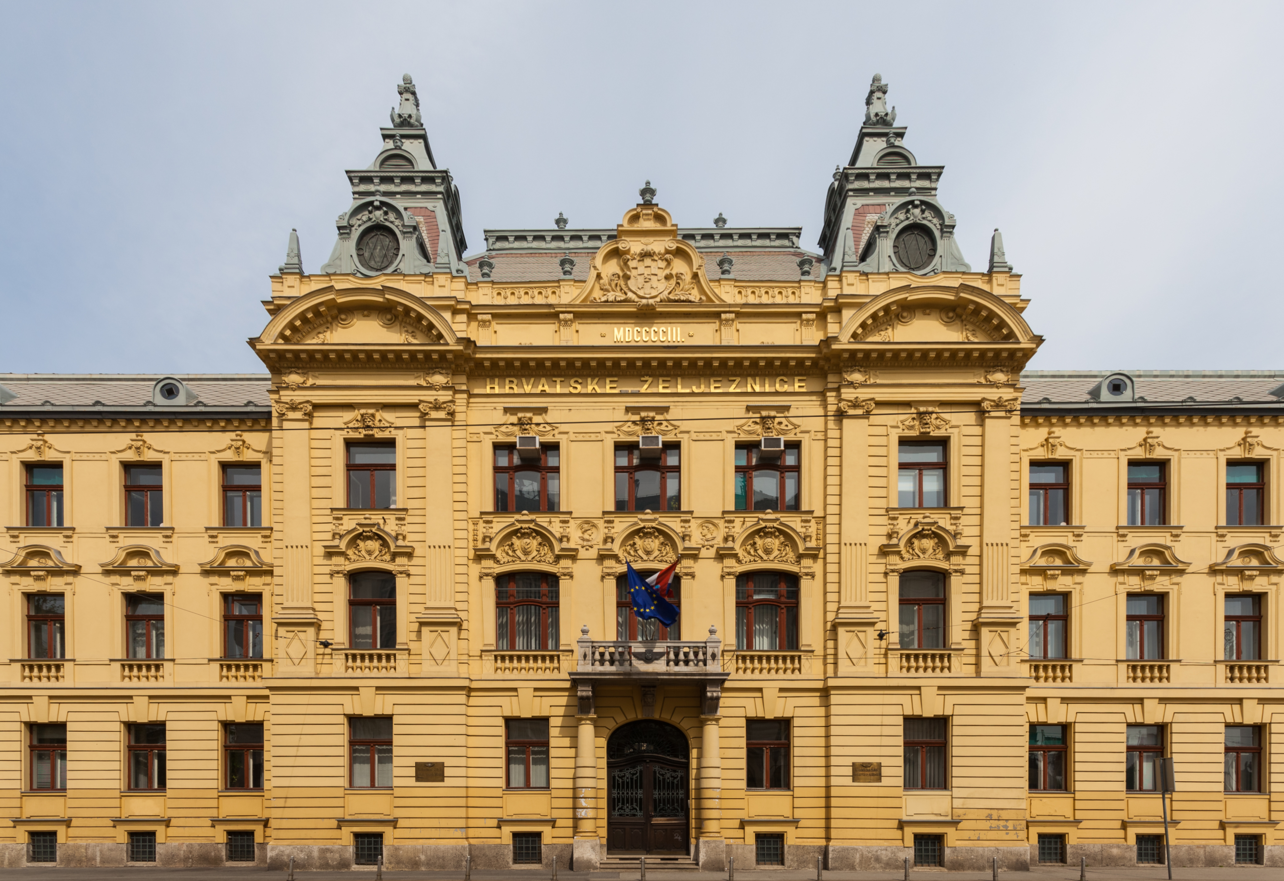 Croatian Railways site, Zagreb, Croatia